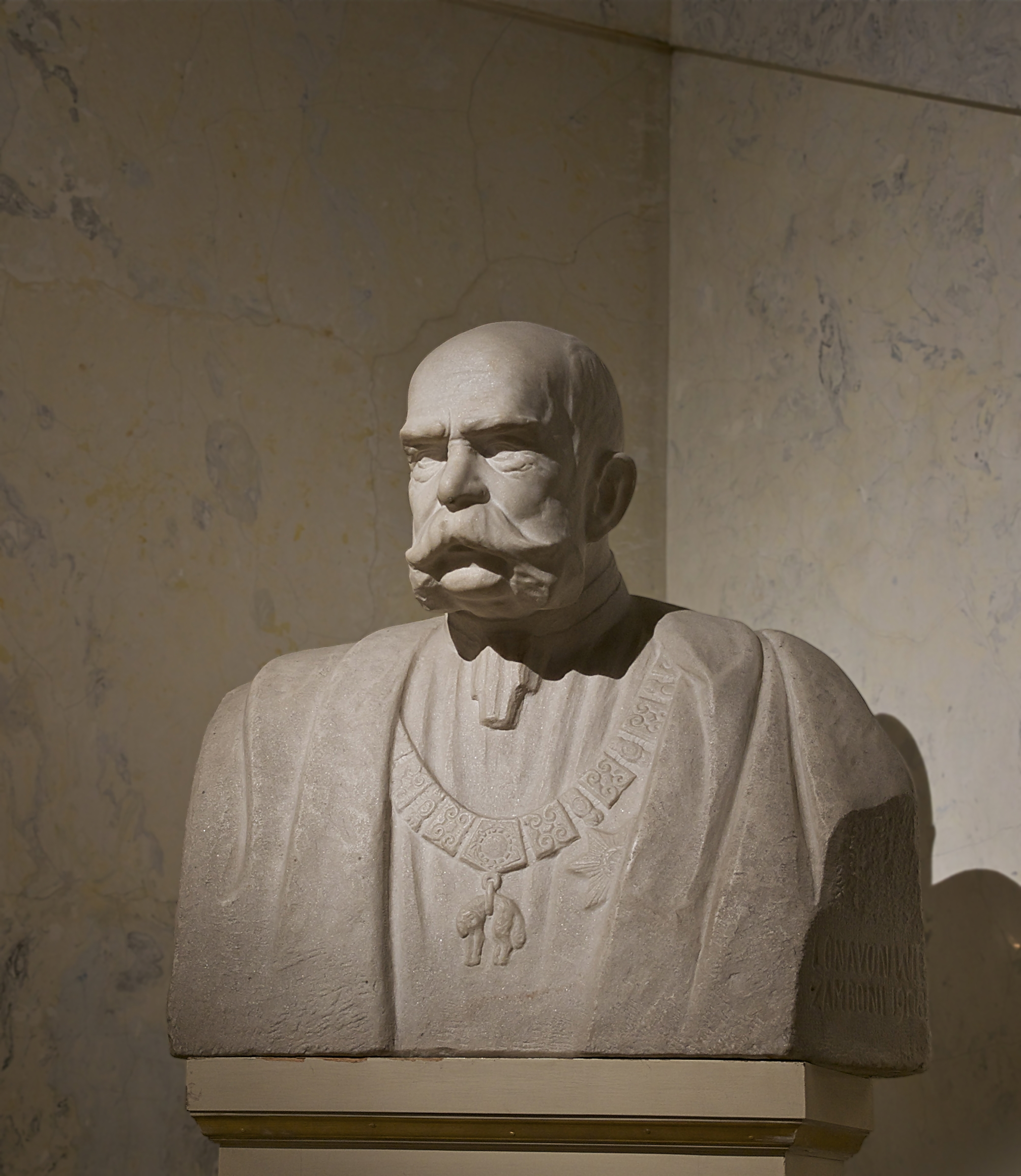 Bust of Franz-Joseph I. (1830-1916), Emperor of Austria and Apostolic King of Hungary, as Grand-Master of the Order of the Golden Fleece.